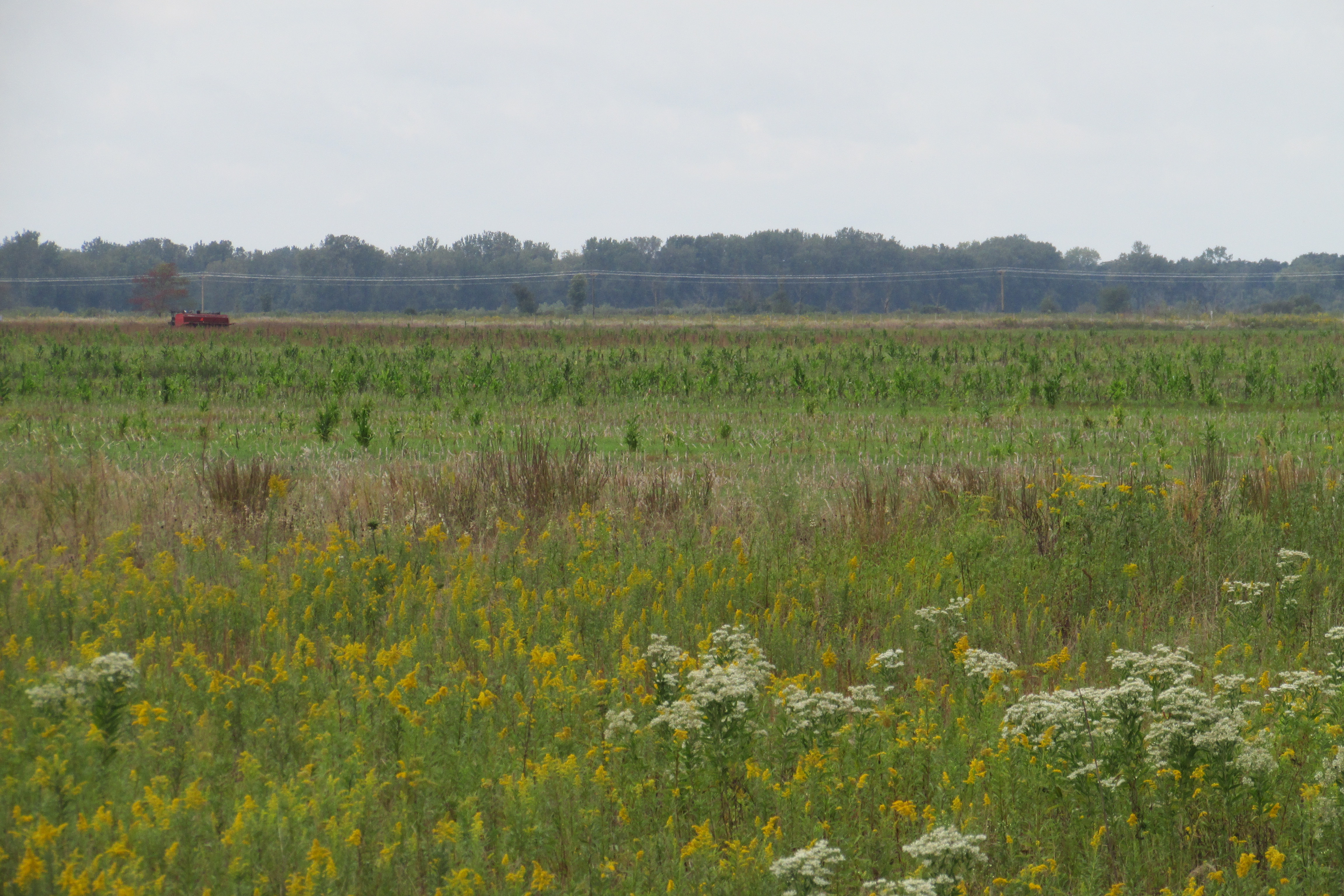 Beaver Lake was once the largest lake in Indiana. Drained in the 1920's.